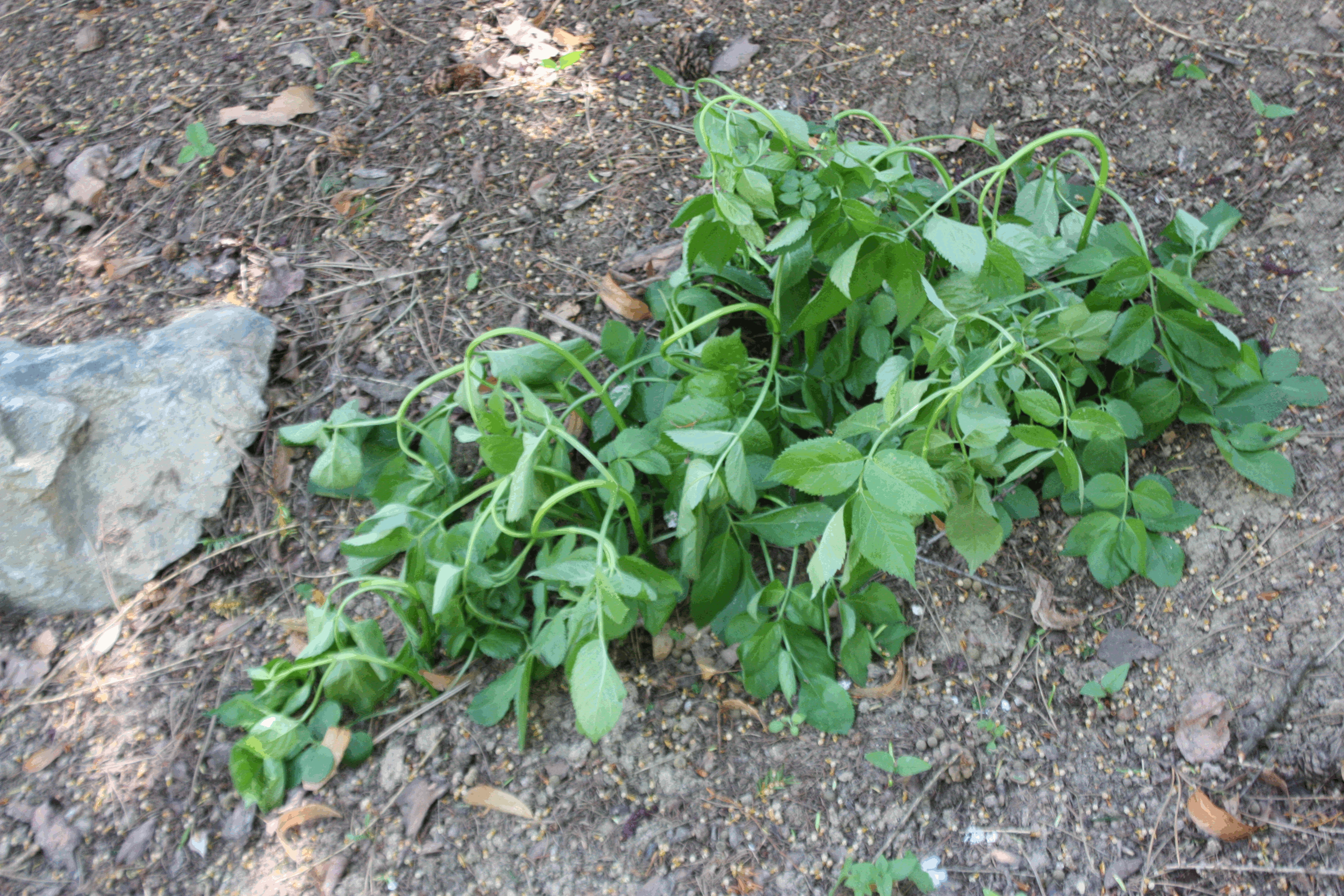 Herbicide Triclopyr (trade name Garlon) was used on Sambucus nigra, Brno, Czech Republic